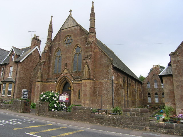 Williton (Somerset) The Methodist Church